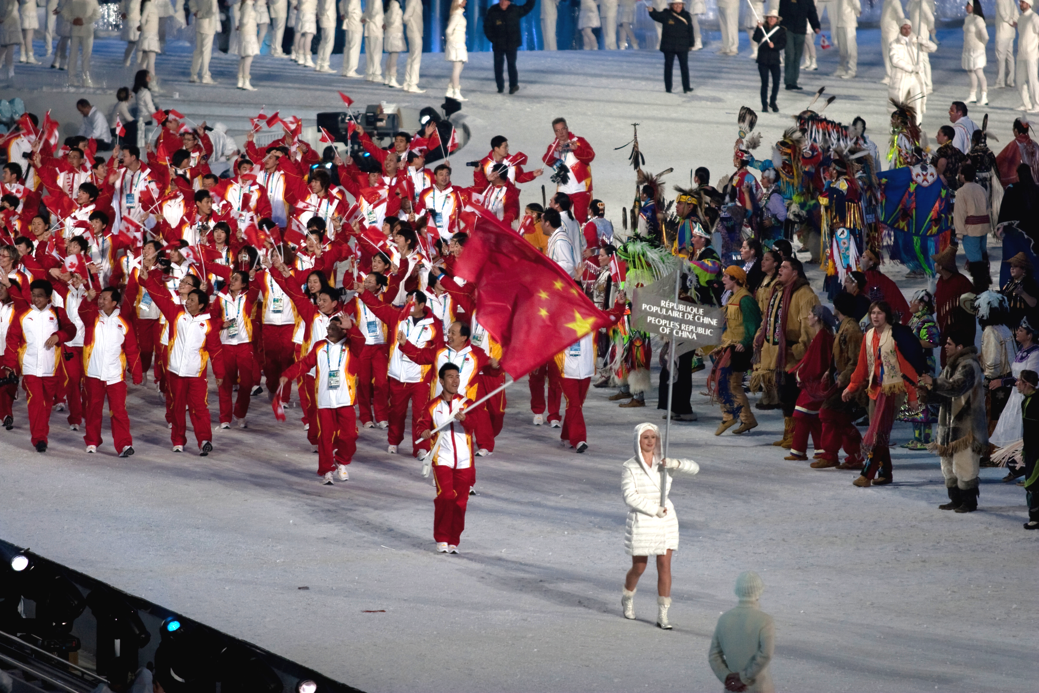 The athletes from China entering the stadium at the opening ceremonies of the 2010 Winter Olympics